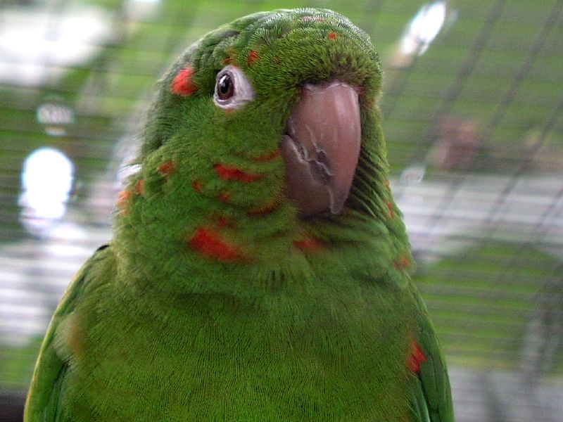 White-eyed Conure (Aratinga leucophthalmus) - upper body, neck and face. In captivity in the Parrot's Garden (Jardim dos Louros), in the Botanical Garden of Funchal, Madeira island, Portugal.